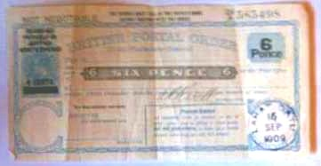 This 6d postal order date stamped 15 Sept 1909 in Lahat Datu, with in the top left hand corner 'poundage payable in British North Borneo' fetched £980 on Ebay in July 2005 (image owner not traced). Obverse.